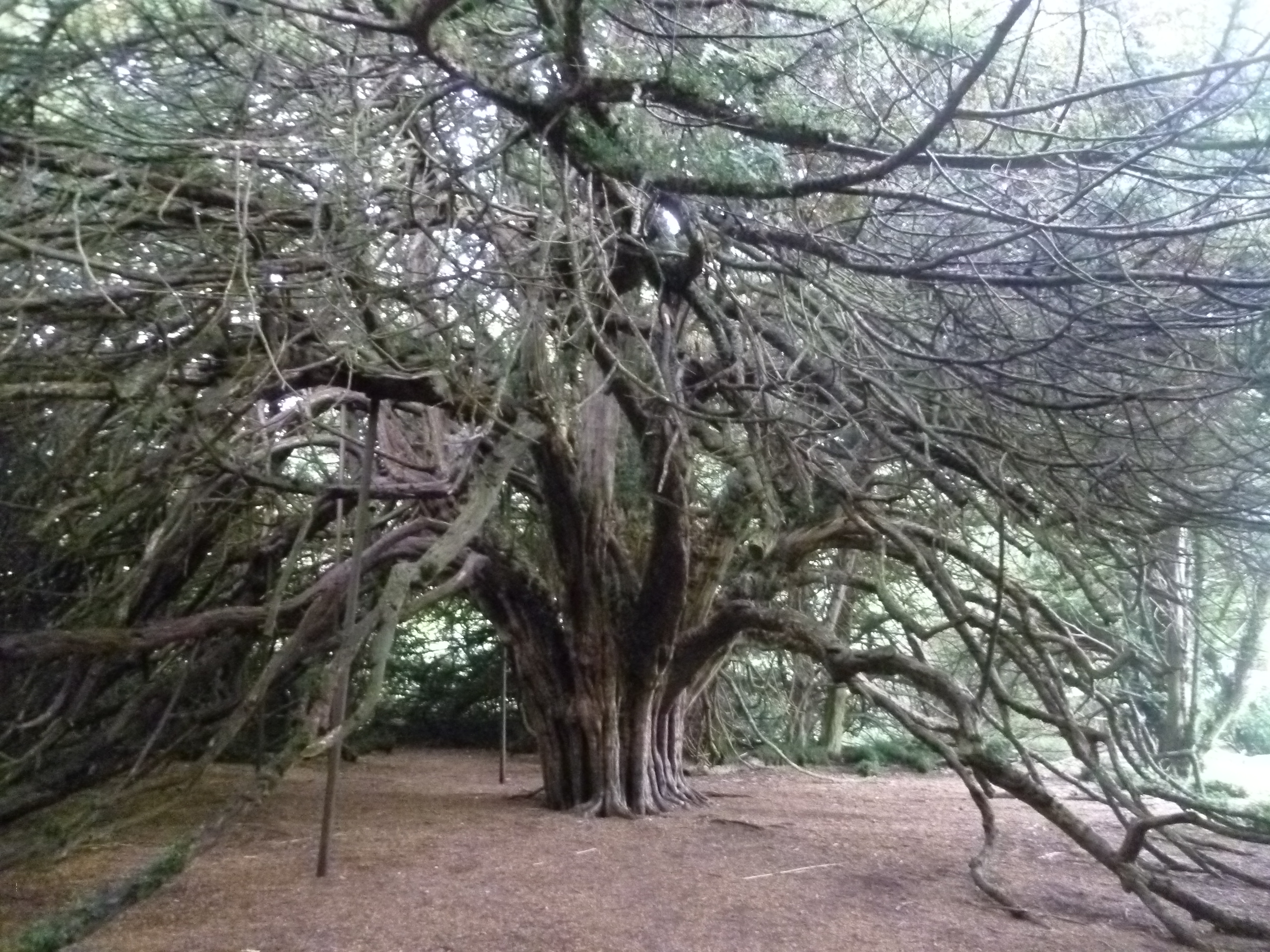 The Ormiston Yew, East Lothian, estimated by the Forestry Commission to be about 1,000 years old.